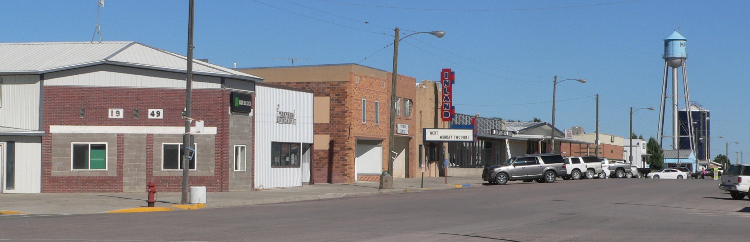 Downtown Martin, South Dakota: north side of Main Street. seem from about Fourth Avenue.